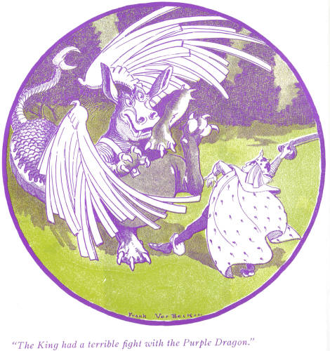 King Mo fights the Purple Dragon - Project Gutenberg eText 16259